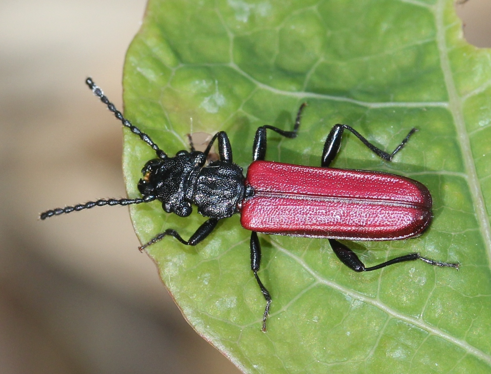 Cucujus coccinatus in Mount Ozugongen, Ibigawa, Gifu prefecture, Japan.